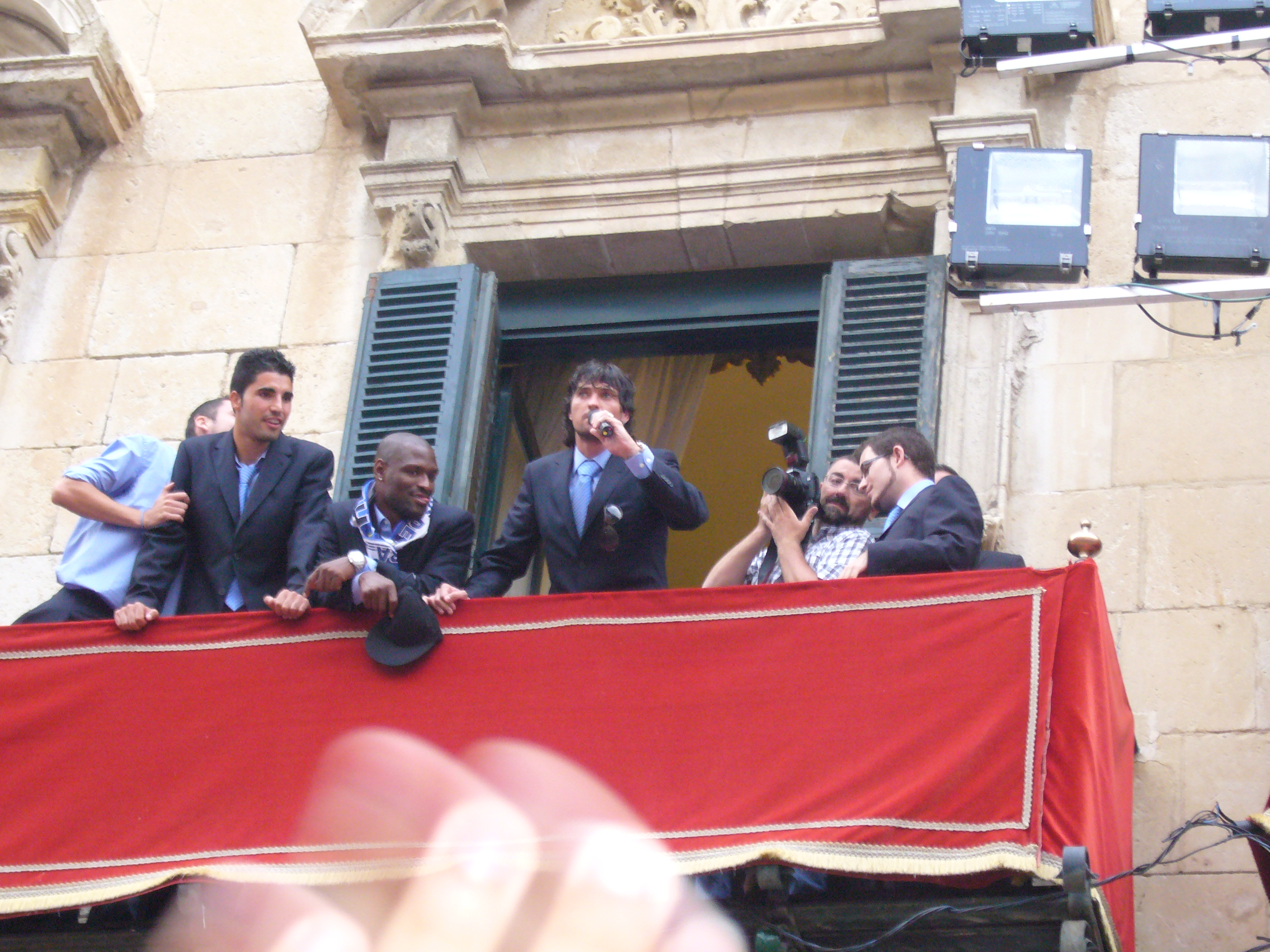 Tote (with microphone in hand) on the balcony of the City of Alicante during the celebrations of the rise of Hércules C. F. to First division in 2009/10 season.